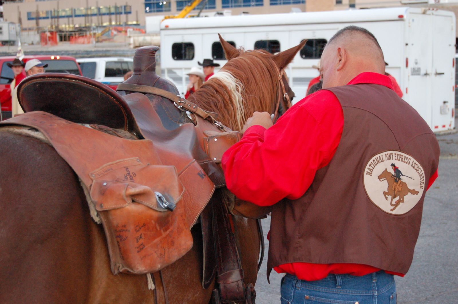 This is one of the riders with his horse in a Pony Express reenactment. You can see the mailbags on the horse. There are four locked pouches full of mail.